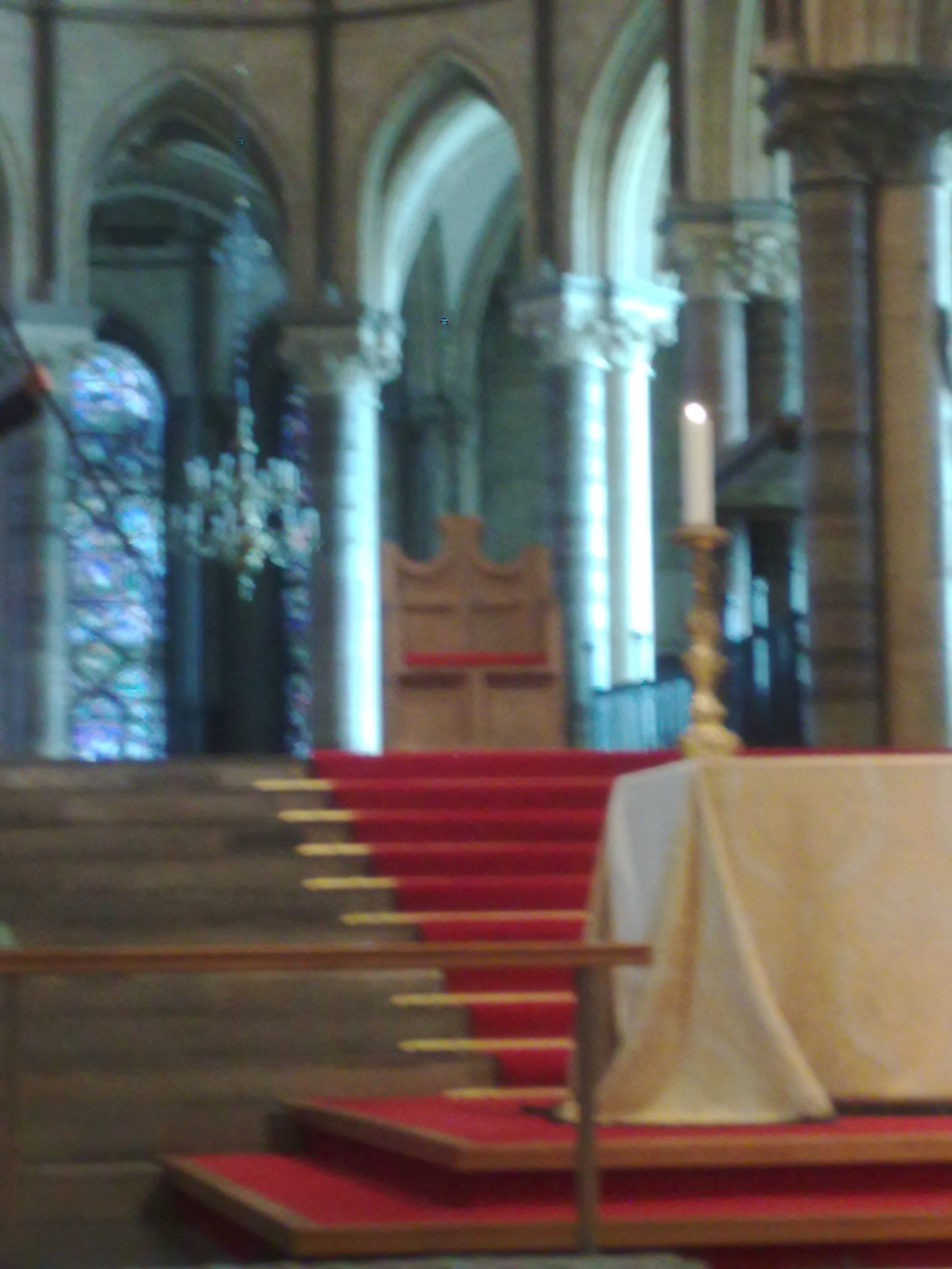 The Chair of St Augustine, above the High Altar of Canterbury Cathedral